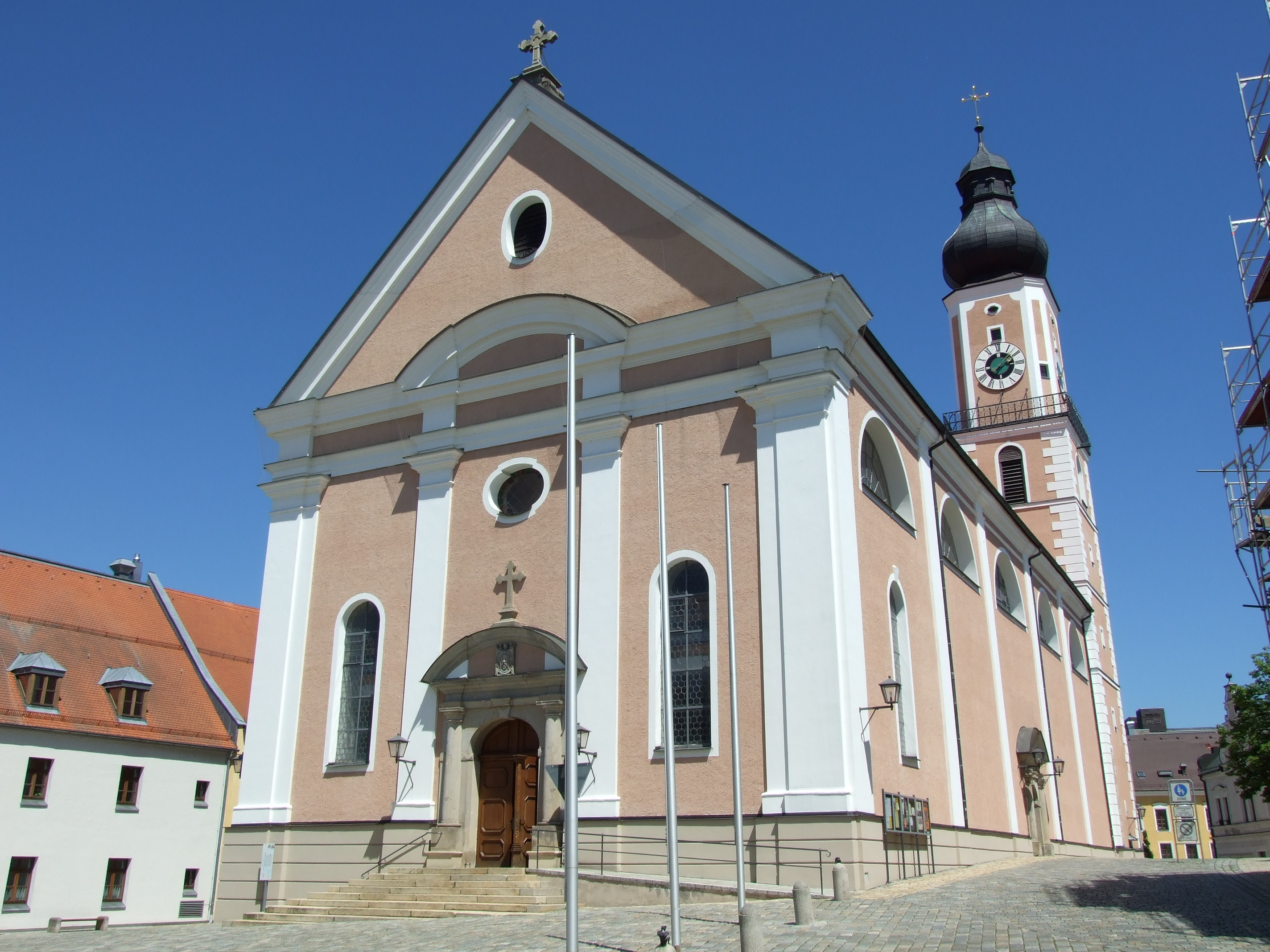 Stadtpfarrkirche St. Jakob Cham